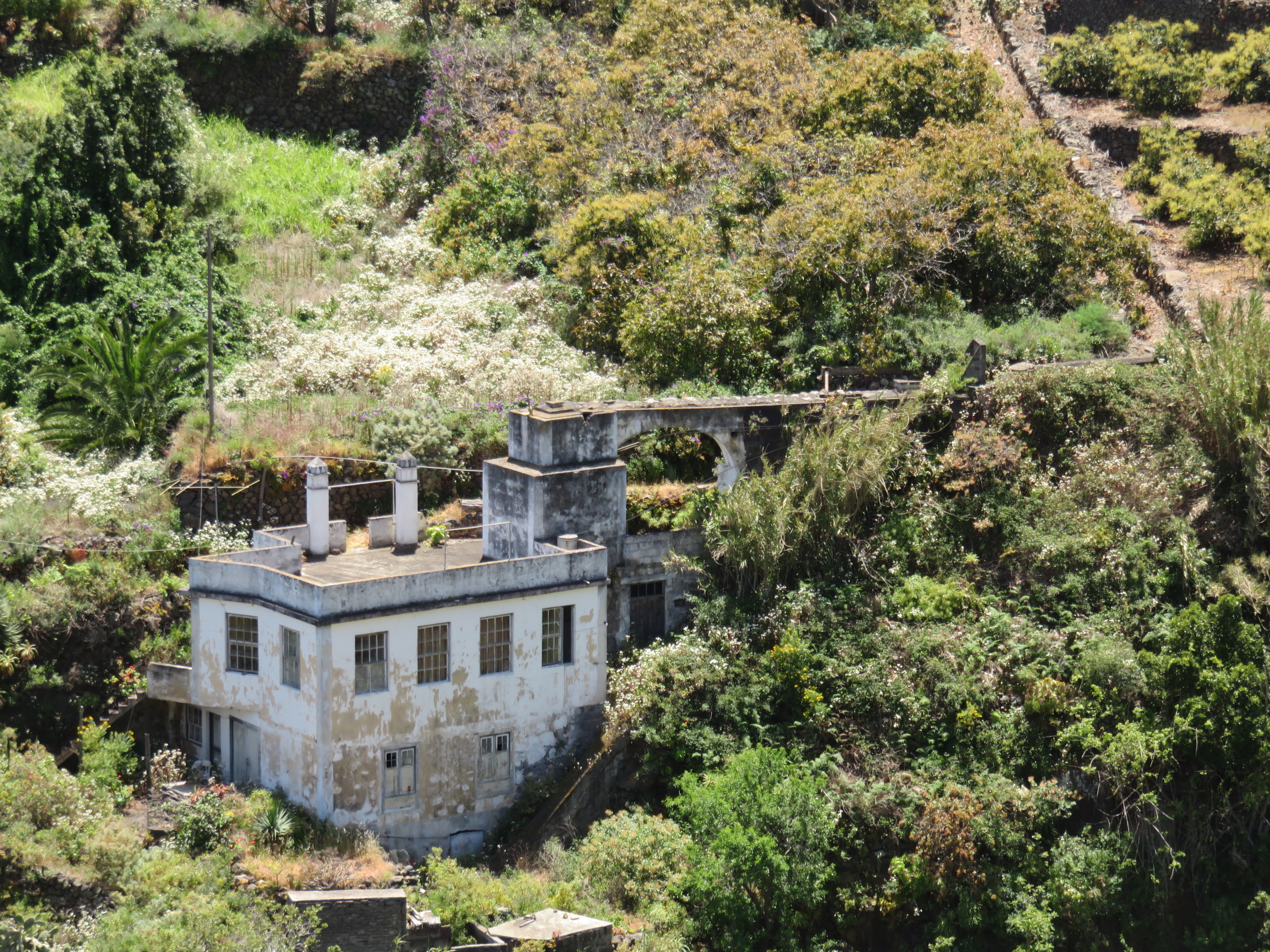 Water mill of Las Nieves